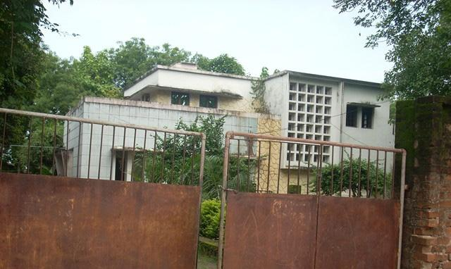 zamindar house